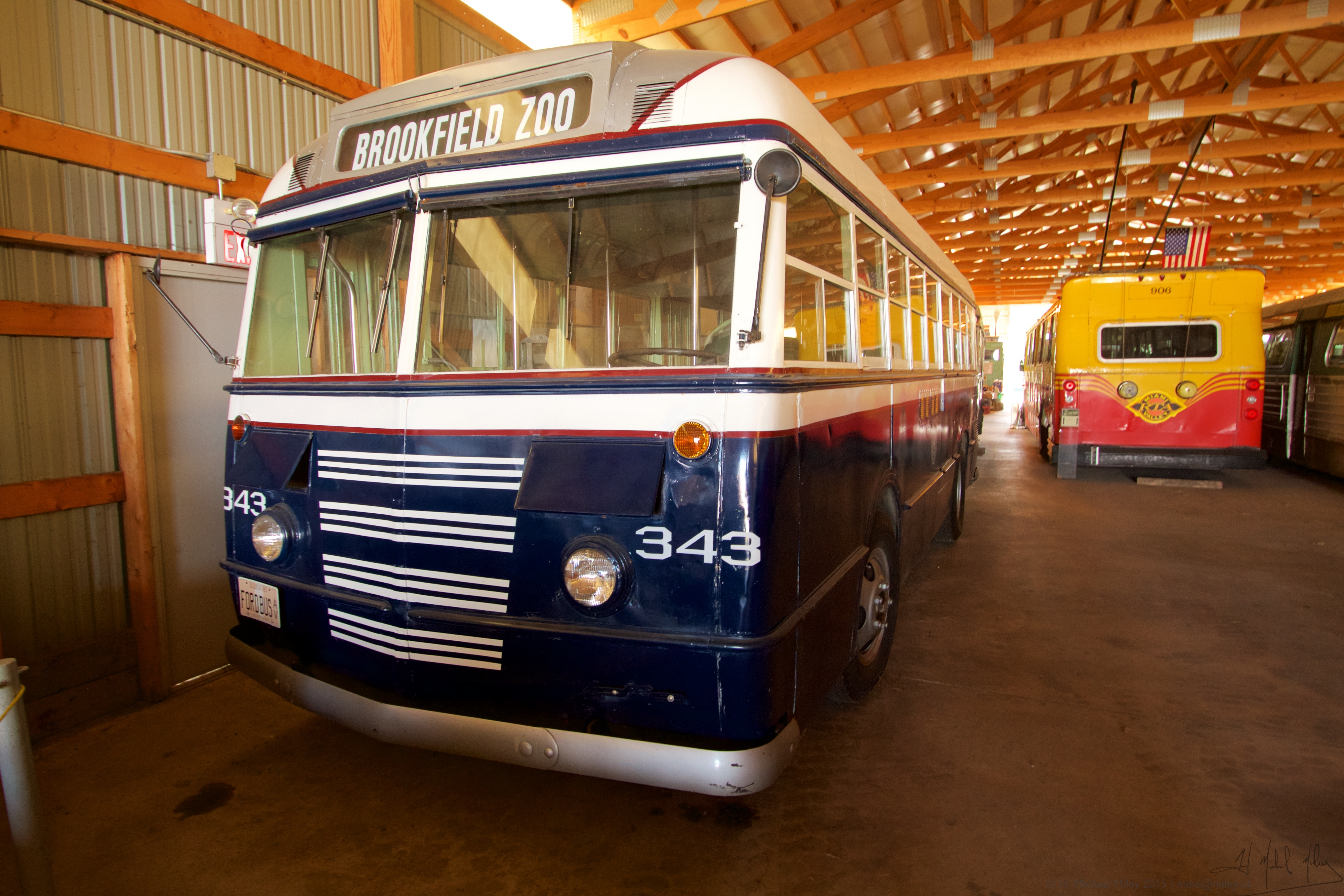 Ex-Montebello Municipal Bus Lines bus 17 (Montebello, California), a 1944 Ford Transit Bus (chassis model 49B, engine model 99T), at the Illinois Railway Museum, repainted to resemble a Chicago & West Towns Bus Company bus of the same make, and renumbered as 343, one number higher than the highest-numbered bus in that company's fleet. In the background is Dayton (Ohio) trolleybus 906, a 1977 Flyer E800.